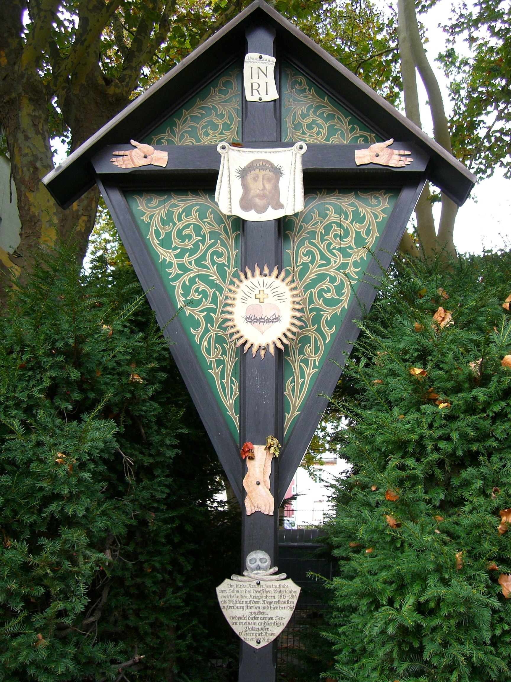 cross of five wounds Freiburg Stühlinger